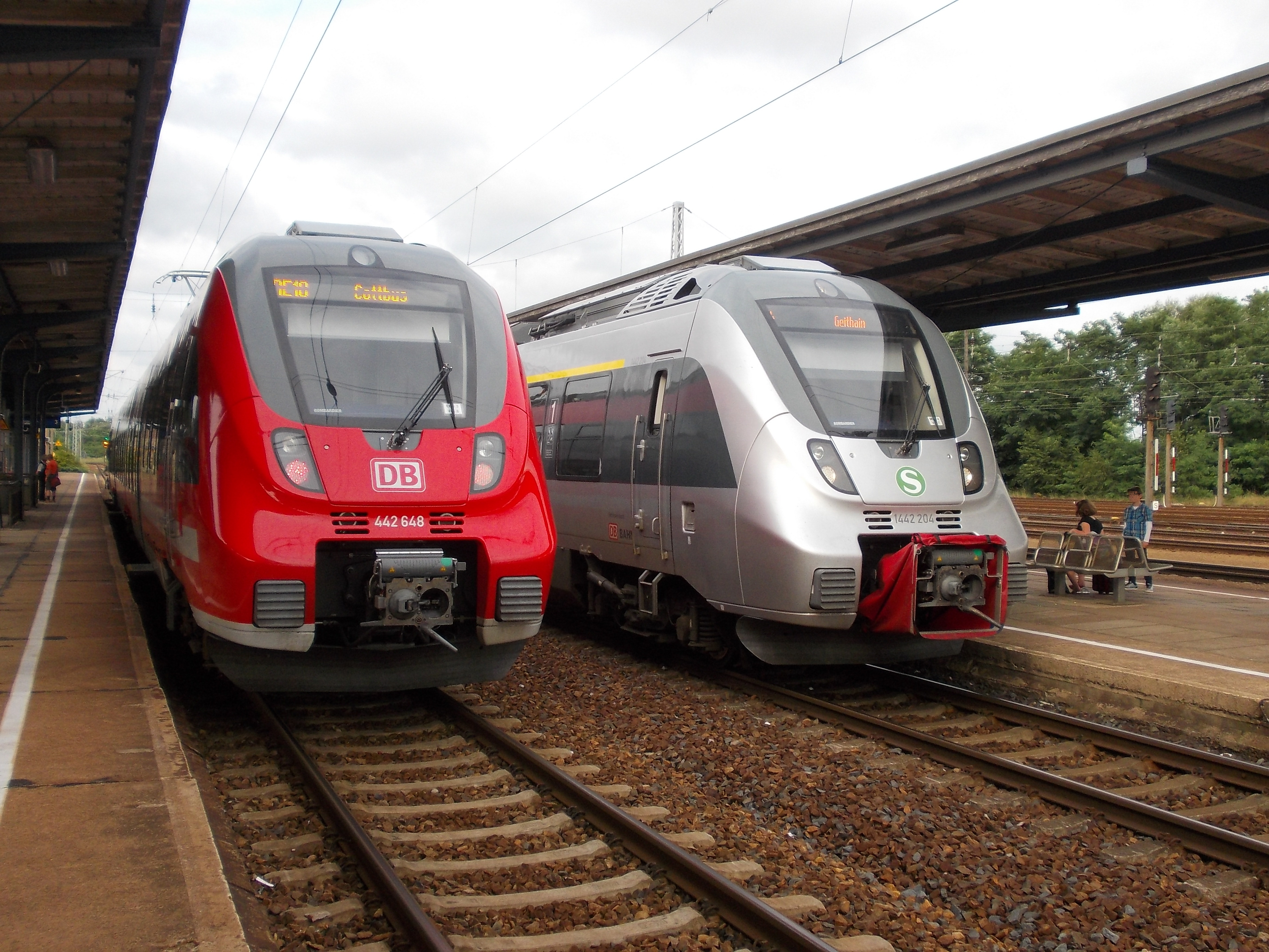 Two Bombardier Talent 2 electric multiple units of DB Regio at Ruhland railway station on 30 July 2014 at 6 p.m. At the left side there is RegionalExpress RE 18 from Dresden to Cottbus, at the right a train of S-Bahn Mitteldeutschland line S4 from Hoyerswerda to Geithain.